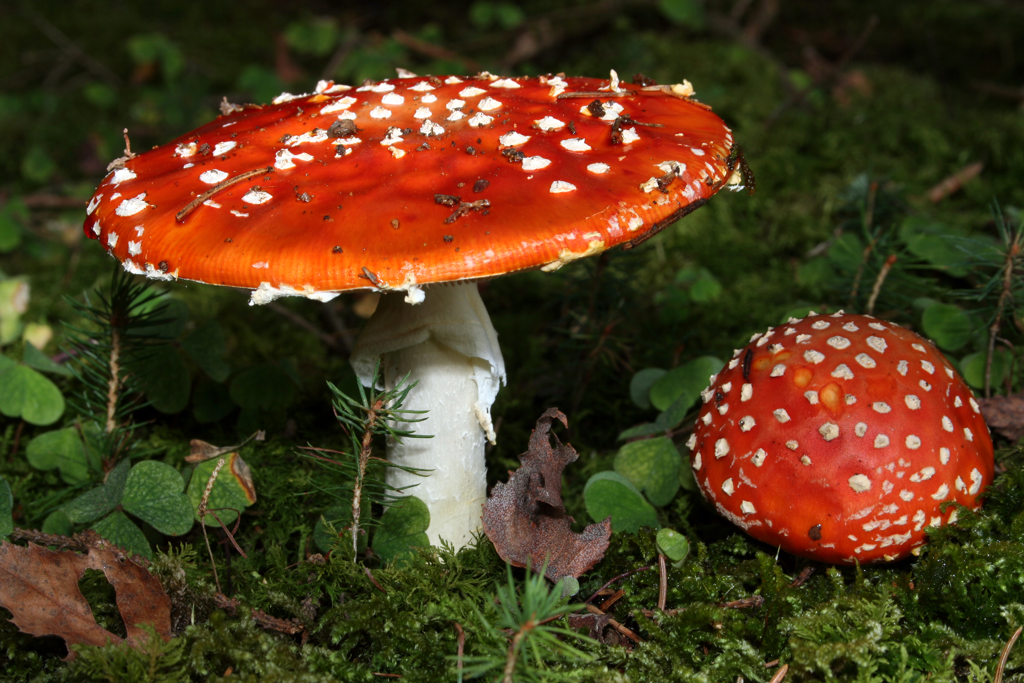 Fly agaric or Fly amanita, Amanita muscaria, Family: Amanitaceae, Location: Southern Germany, Ulm